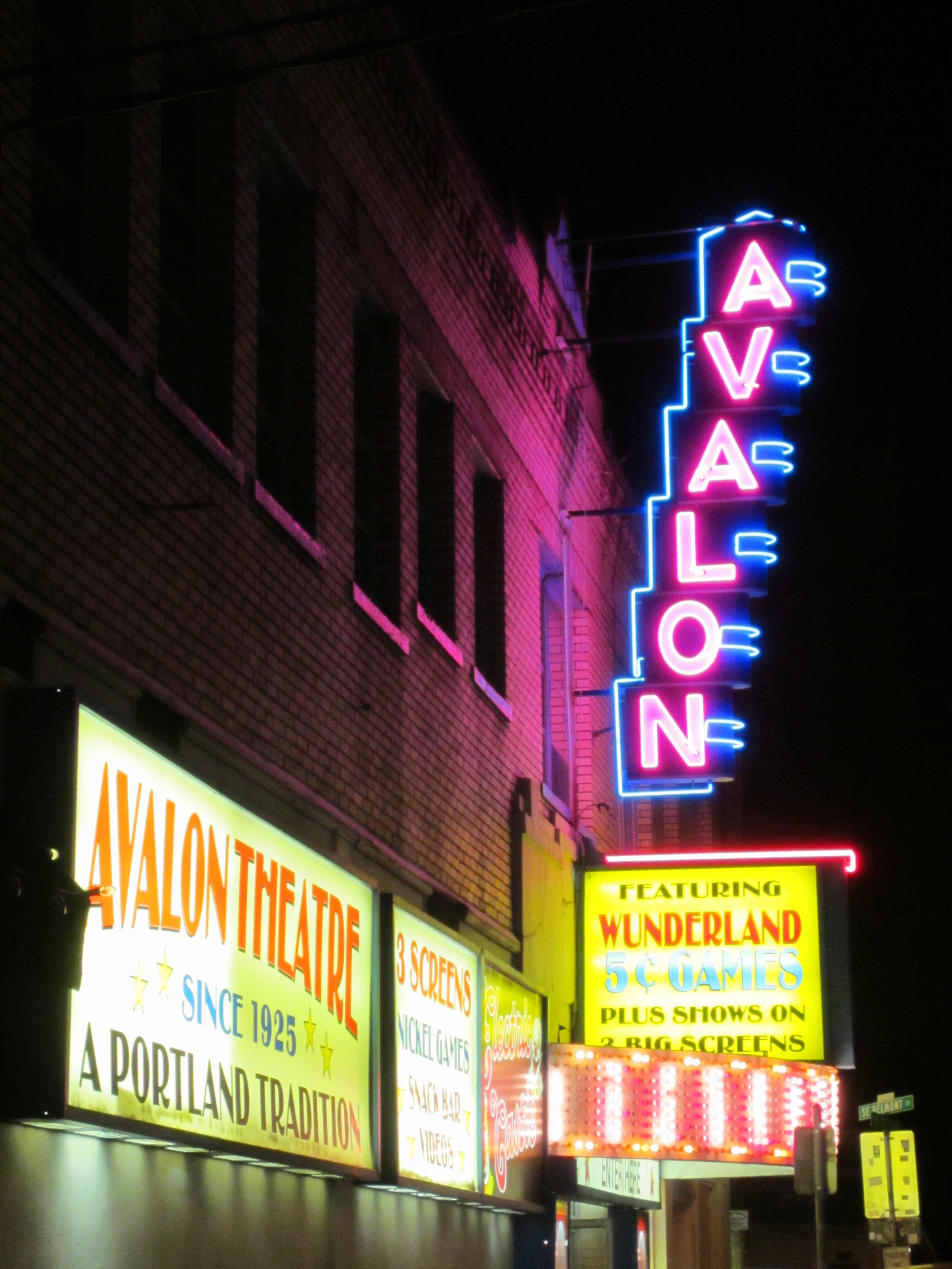 Avalon Theatre in southeast Portland, Oregon in 2012